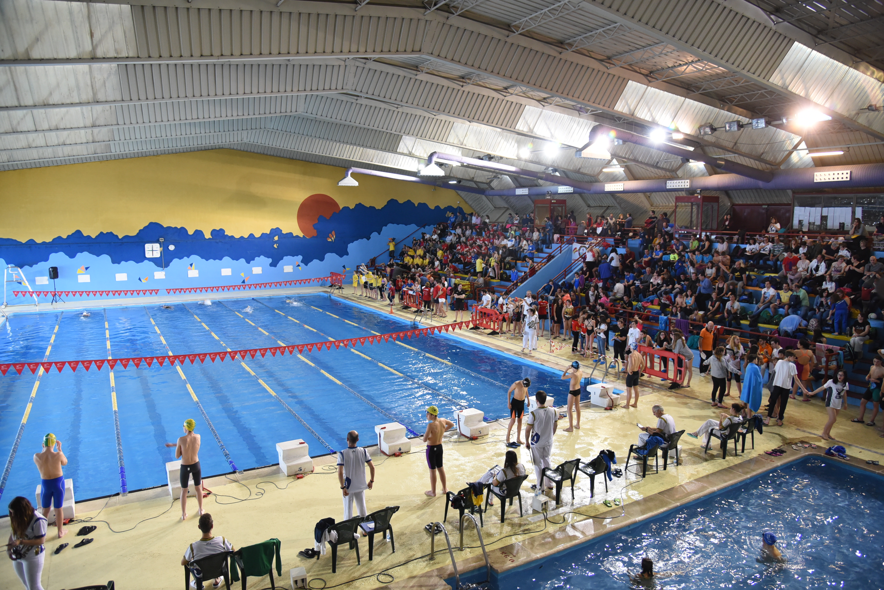 TOLEDO, 10 de febrero de 2019.- El director general de Juventud y Deportes, Juan Ramón Amores, asiste, en la Piscina Cubierta del Salto del Caballo, a la entrega de Medallas del Campeonato Regional de Natación Alevín. (Fotos: José Ramón Márquez // JCCM)